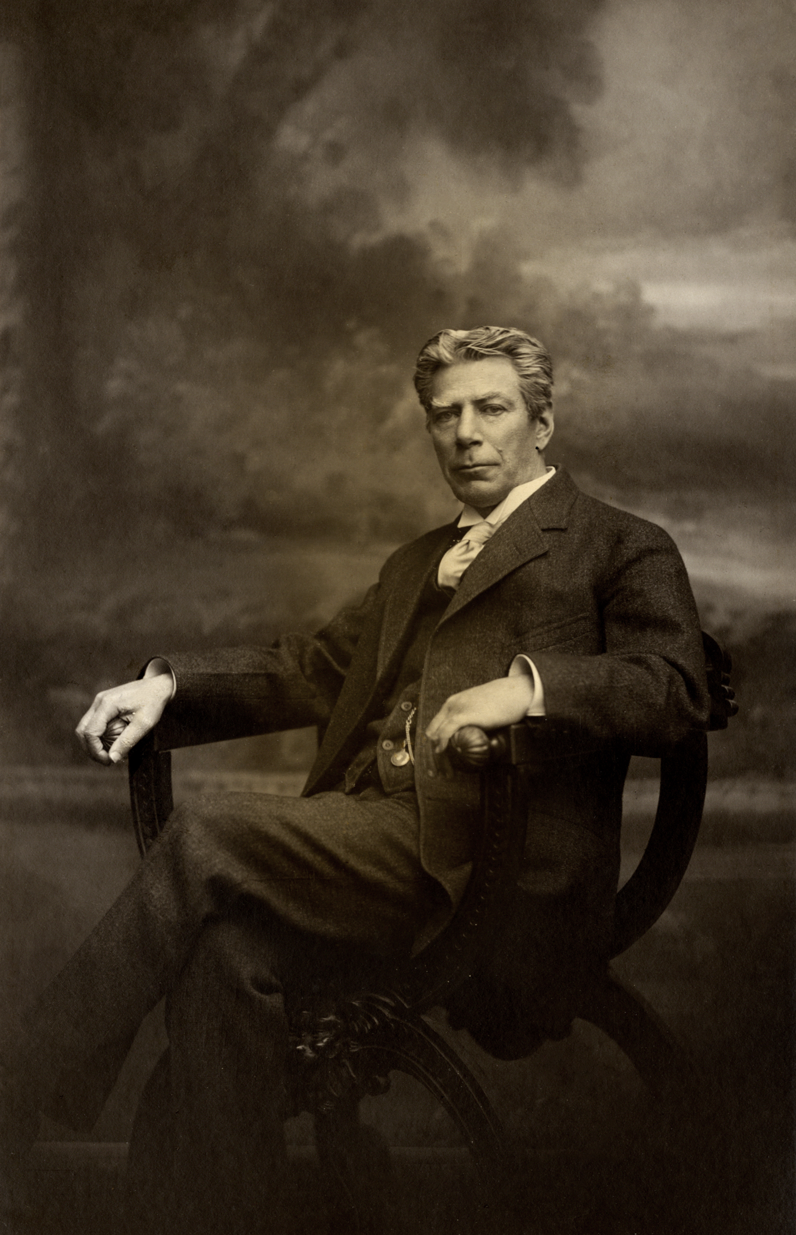 Agriculture figure David Lubin (1849-1919)